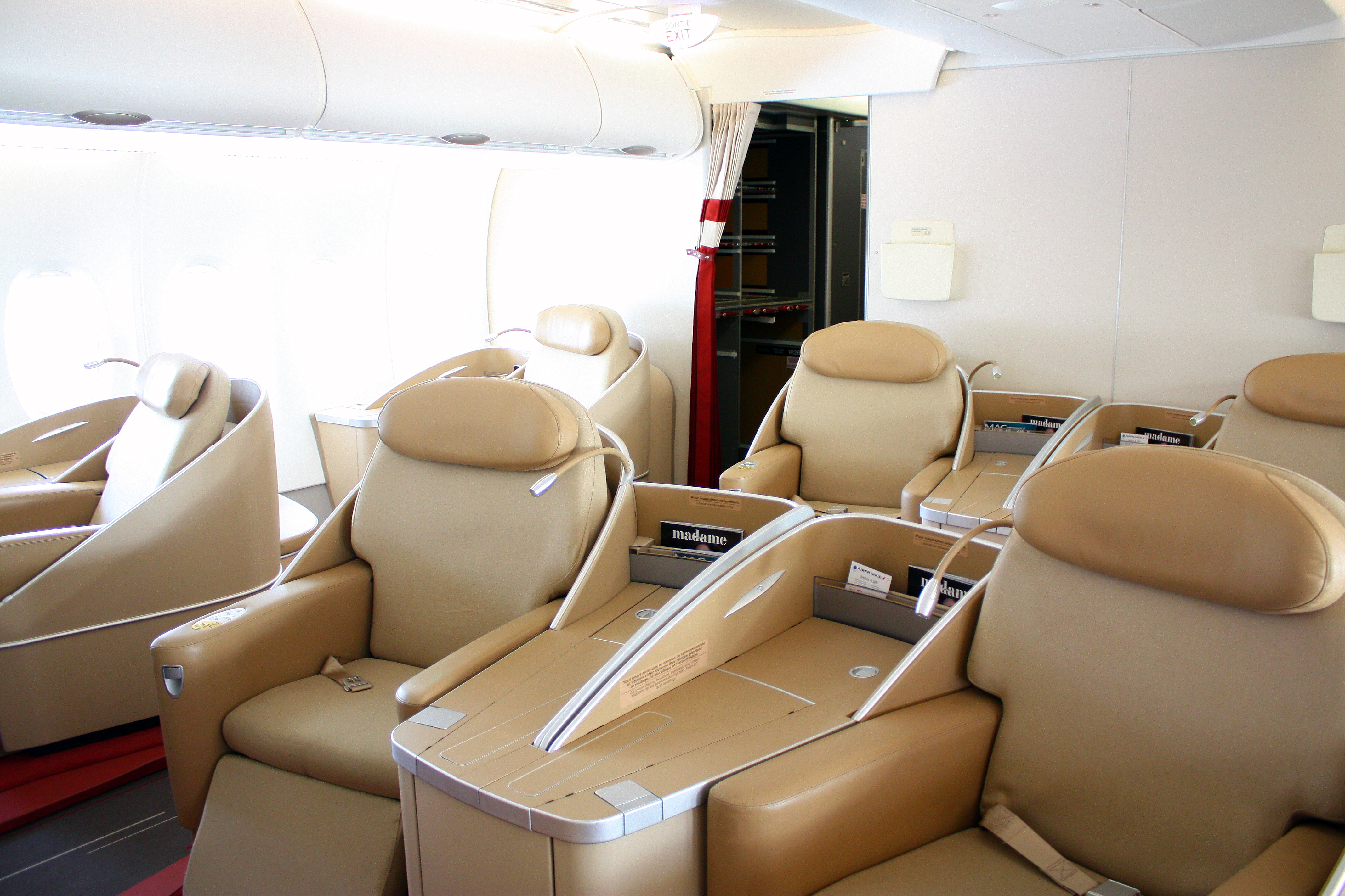 First Class on Air France A380 F-HPJC